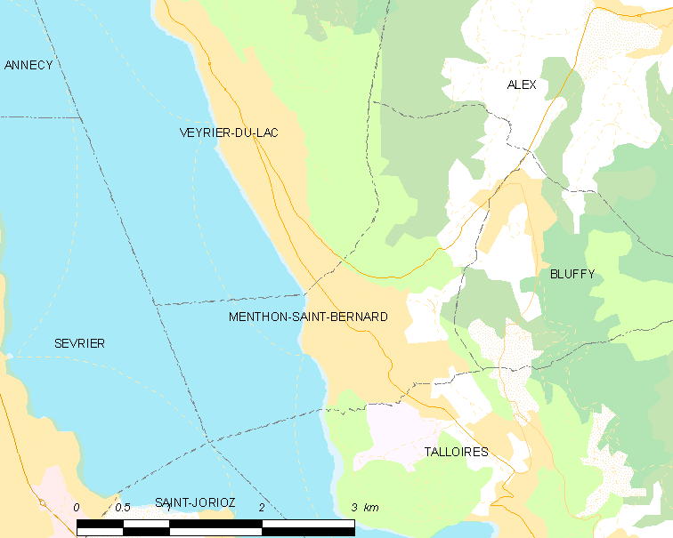 Map of French municipality Menthon-Saint-Bernard